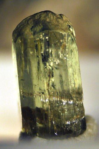 Kornerupine Locality: Horombe Region, Fianarantsoa Province, Madagascar very fine, gemmy Kornerupine crystal size: 9 mm x 4 mm x 4 mm Collection of Val Collins